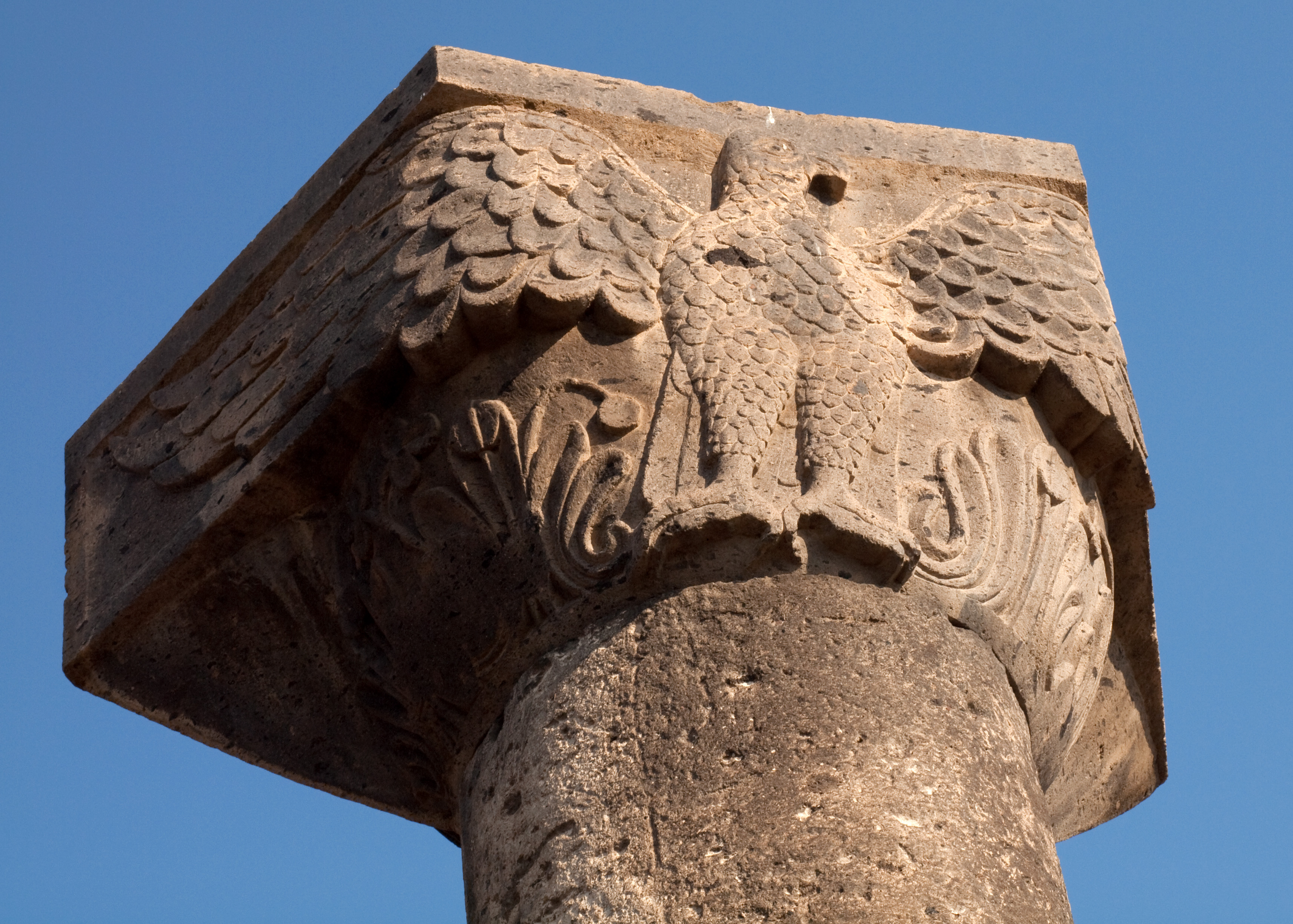 Armenia - Day 2 - 19 September 2010. A Christian temple built between 642 and 662 AD